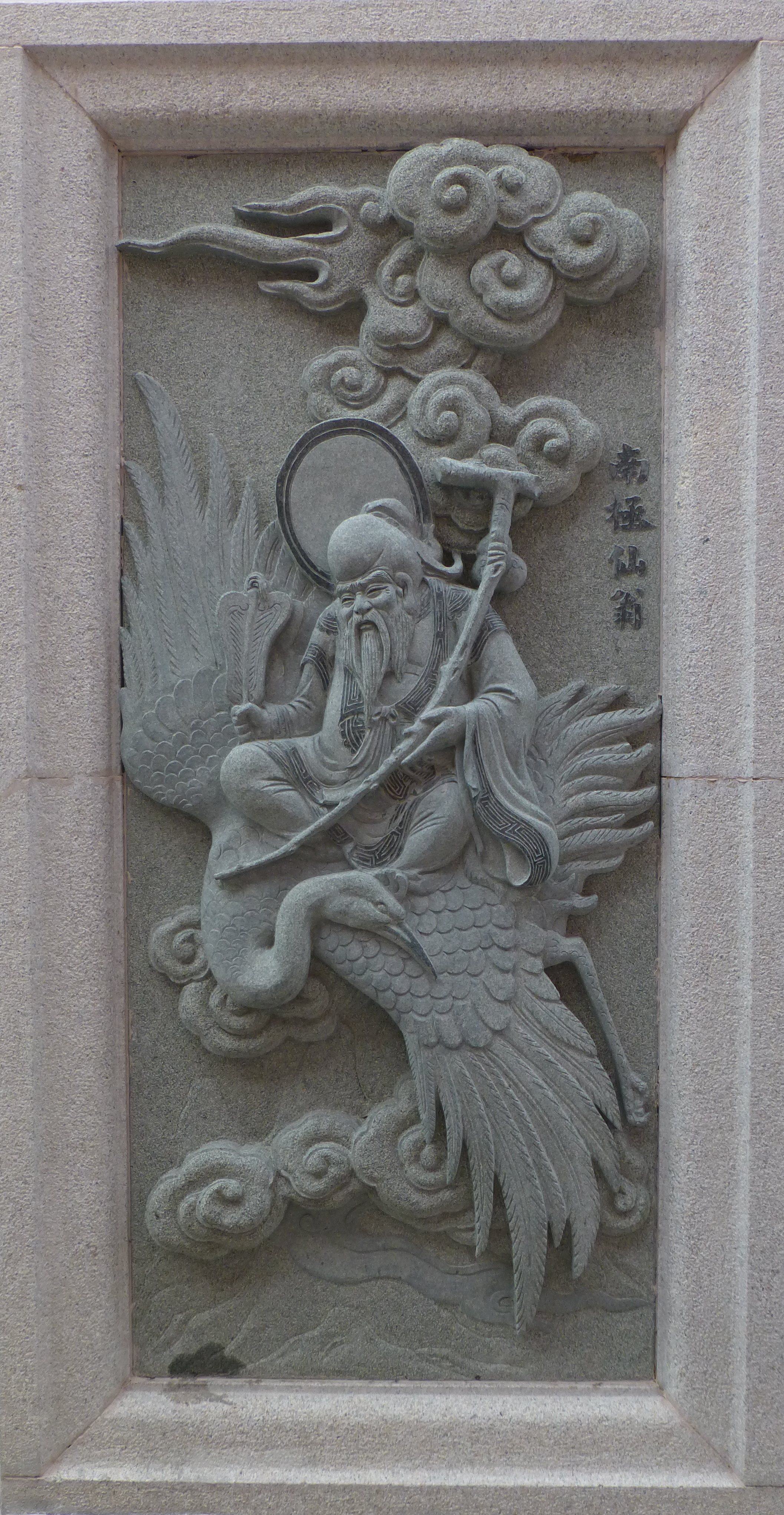 017 Nan ji xian weng, the old man of the South Pole, Investiture of the Gods at Ping Sien Si, Pasir Panjang, Perak, Malaysia Photograph from the Ping Sien Si Temple in Perak, Malaysia taken by Anandajoti.